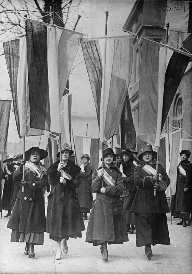 WOMAN SUFFRAGE PICKET PARADE